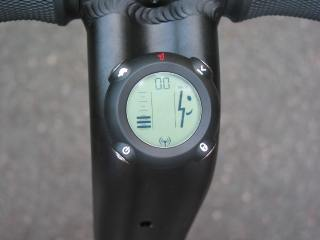 My friend Stan took this photo of the Info Key at the Segway dealership in New Jersey